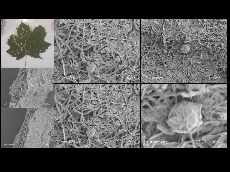 Powdery mildew on a Maple leaf as seen under a scanning electron microscope